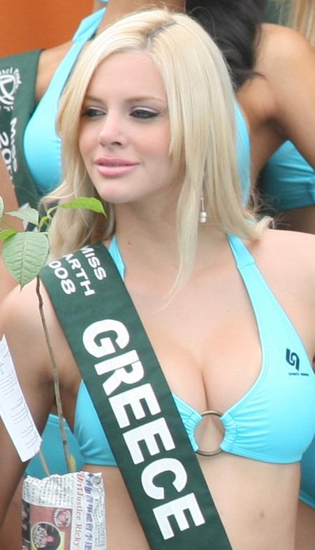 Ria Antoniou, Miss Earth Greece 2008 during the Press Presentation of Miss Earth 2008.